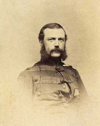 Johan Andreas Peter Anker (Ancher) (1838-1876), Danish army officer